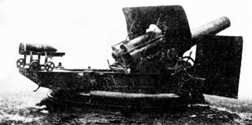 A Japanese Type 45 240 mm howitzer. Used by the Japanese during World War II.